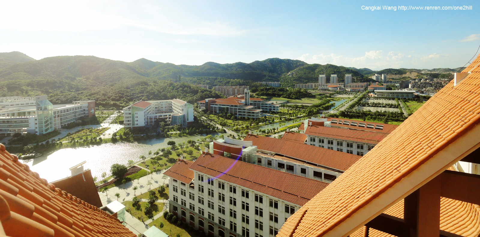 Zhangzhou campus, which houses freshman and sophormore students from 2003 to 2012. The picture was taken in July 2012